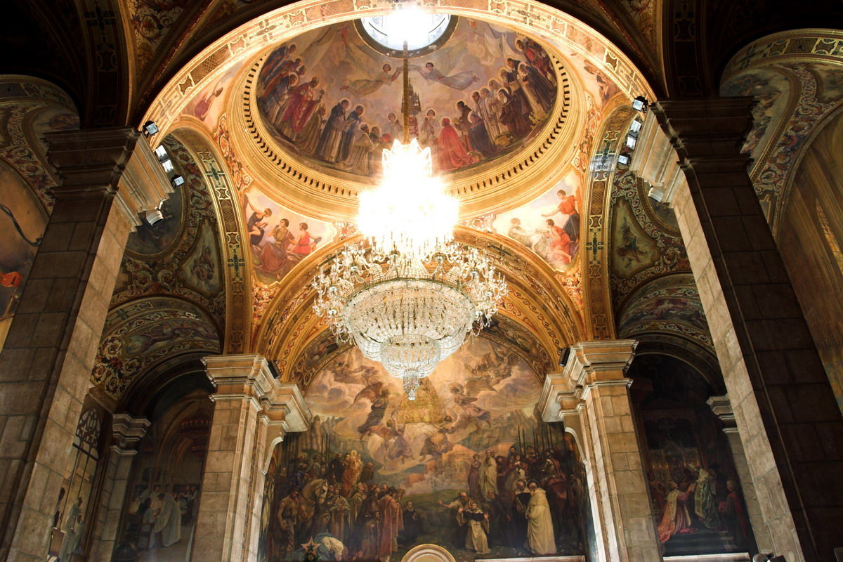 Sant Jordi hall of Palau de la Generalitat (Catalan Government Seat) in Barcelona. 17th century - renaissance style.